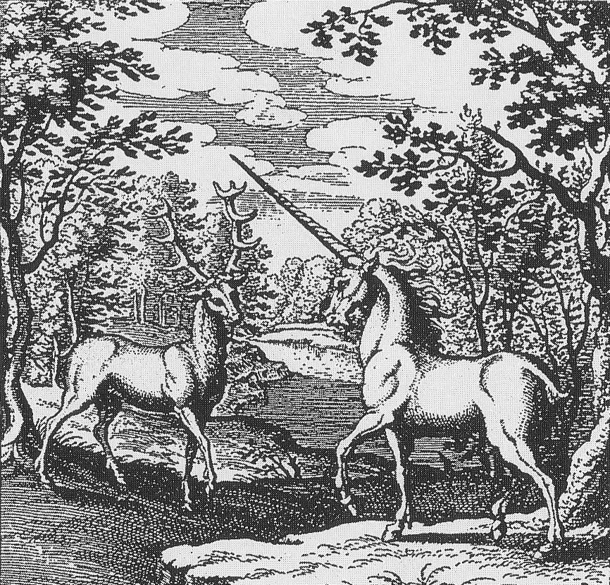 1 = Red Deer and Unicorn in a forest - Alchemic engraving - Lambspring, De lapide philosophico figurae et emblemata, figure III, In the Body there is Soul and Spirit.